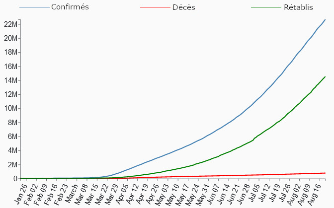 The graph represents, on a global level, confirmed cases (blue), recoveries (green), and deaths (red).